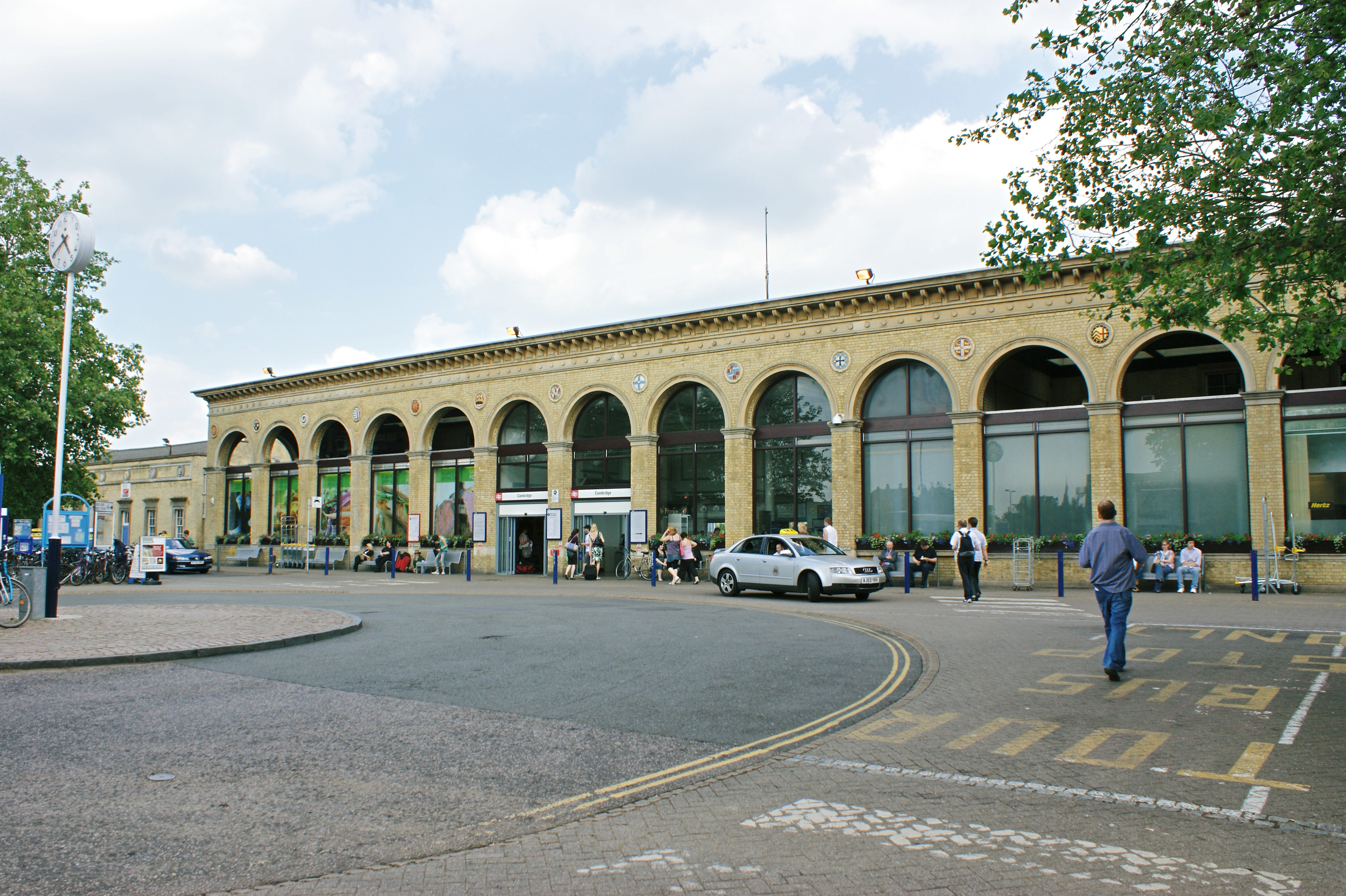 Cambridge railway station frontage, 06/08.